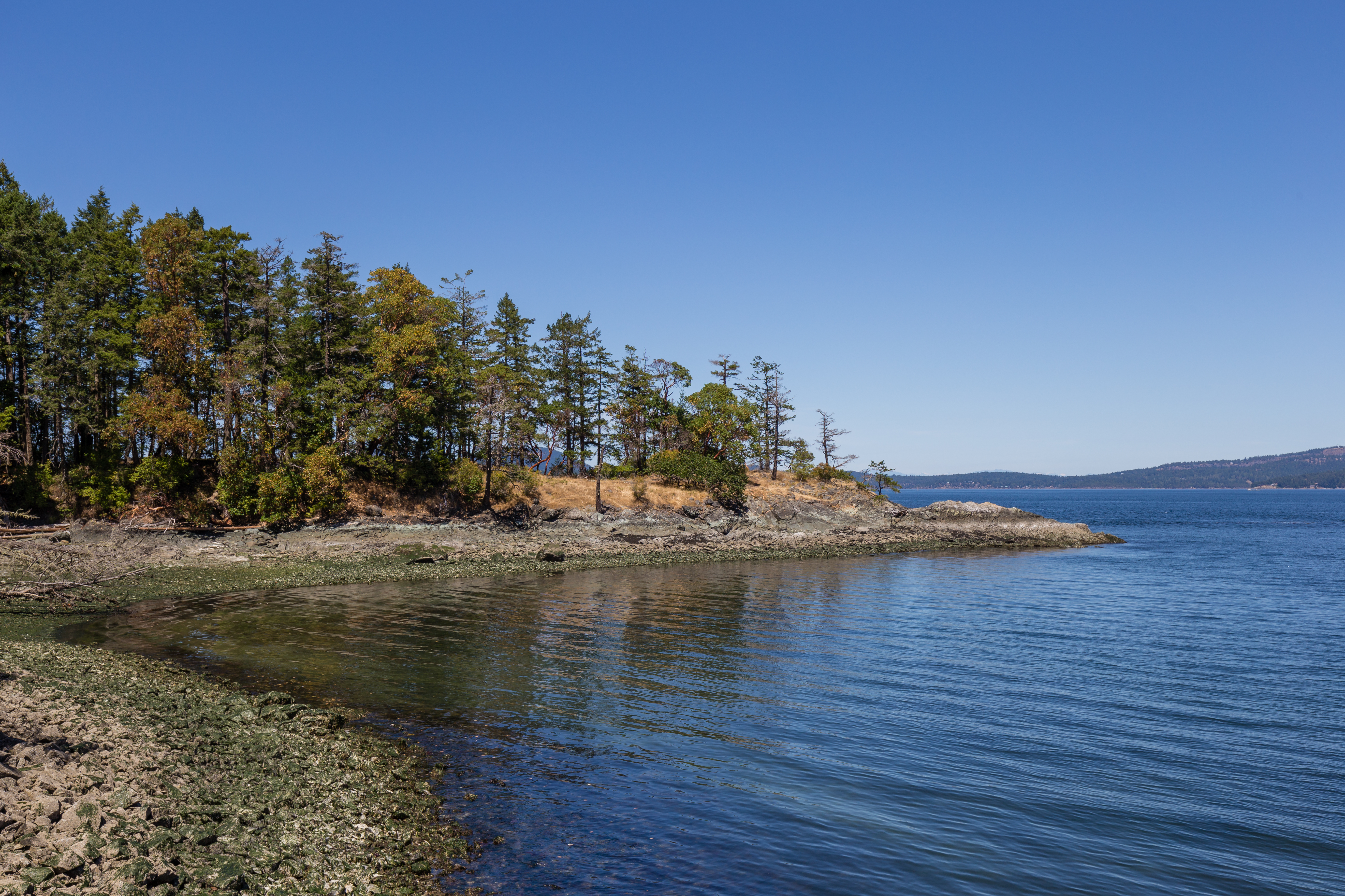 A small inlet in Ruckle Provincial Park, Saltspring Island, Canada